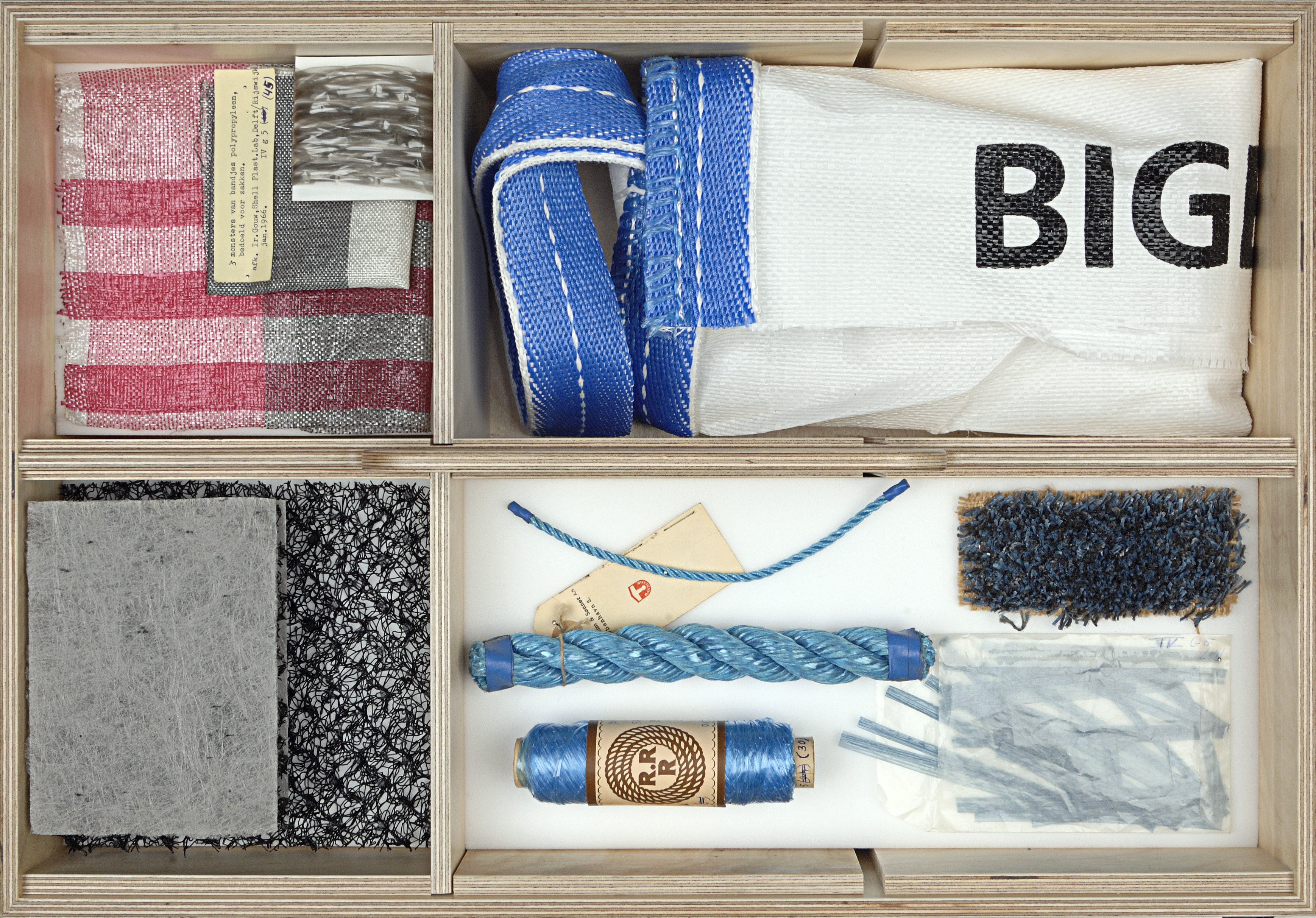 Polypropeen (PP): Enkadrain PP geotextile, PP yarn, woven PP and Bigbag from woven PP. Tray and samples of the textile cabinet in the Textielmuseum in Tilburg. Cabinet interior made by Simone de Waart, Material Sense.